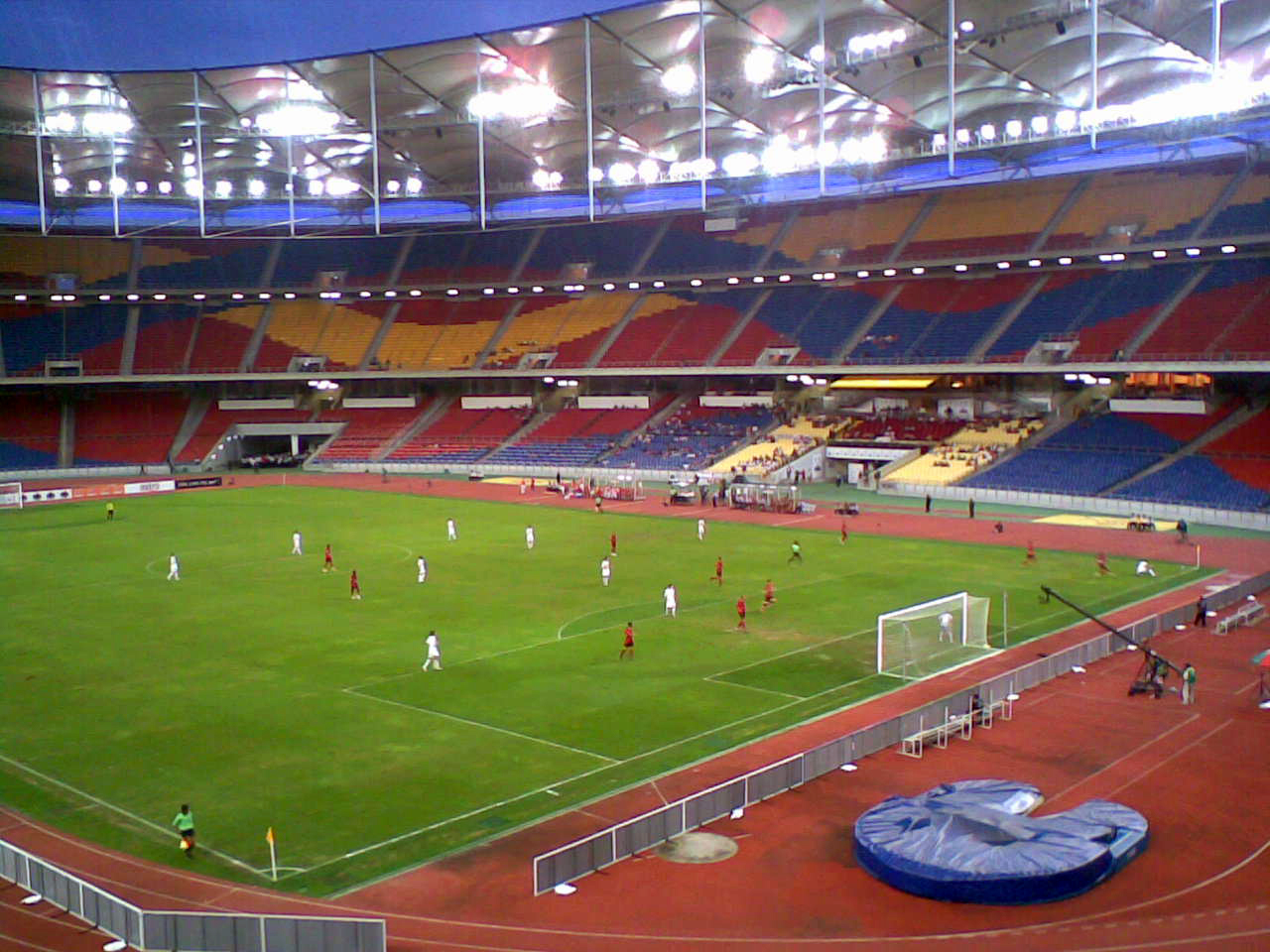 The interior of National Stadium, Bukit Jalil, taken during a Champions Youth Cup playoff match between AC Milan and Fluminense on August 19, 2007.